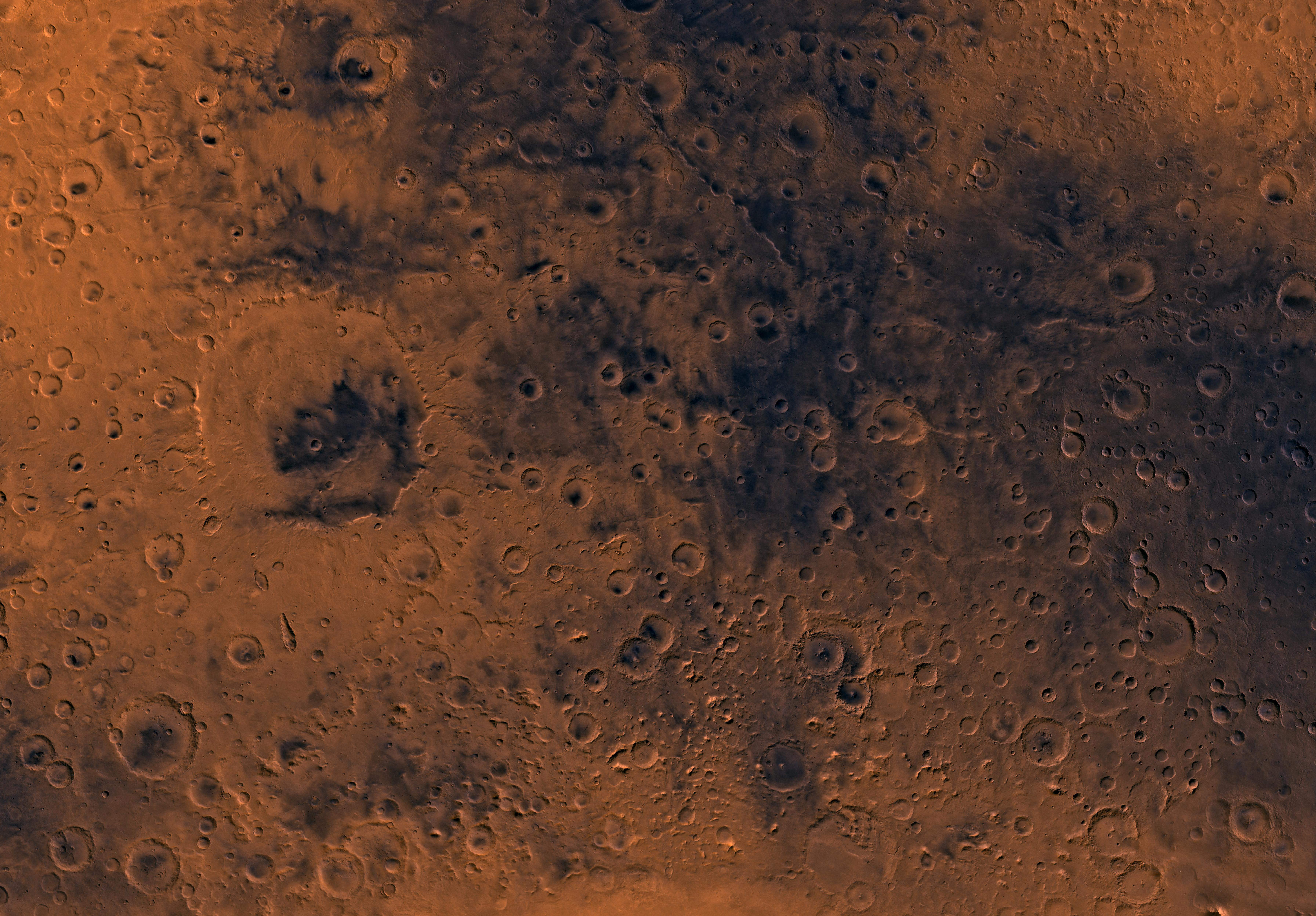 PIA00181: MC-21 Iapygia Region Mars digital-image mosaic merged with color of the MC-21 quadrangle, Iapygia region of Mars. Heavily cratered and in places dissected highlands dominate the Iapygia quadrangle. The west-central part is marked by a large impact crater, Huygens. Huygens is an ancient remnant of the many large impact events that occurred during the period of heavy bombardment. The southern one-third is characterized by mountainous and knobby terrain of the northern rim of the enormous Hellas impact basin. Latitude range -30 to 0 degrees, longitude range -90 to -45 degrees.